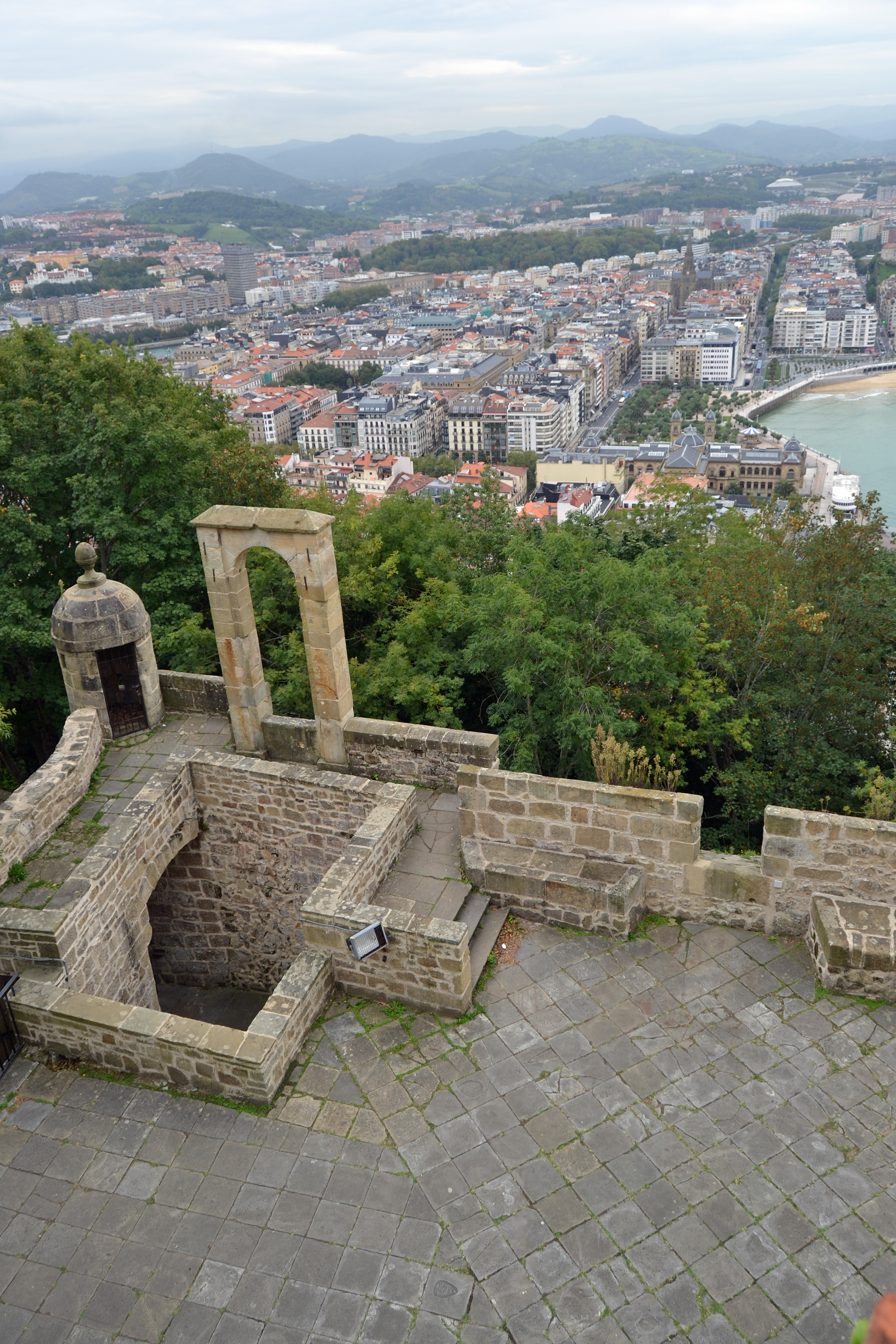 Castle of Mota or Urgull Castle. Donostia-Sant Sebastian, Gipuzkoa. Basque Country.